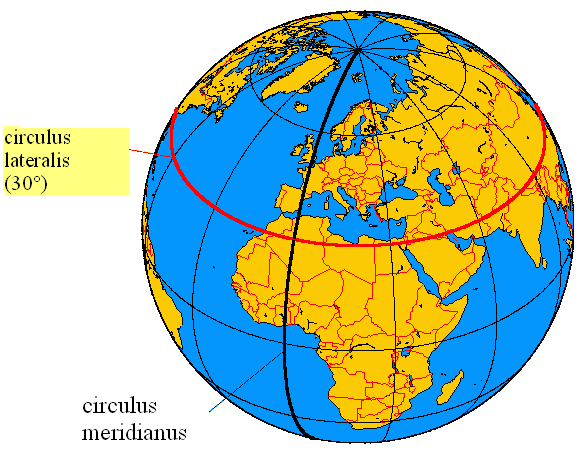 prime meridian on earth globe. I made a latin version of it.